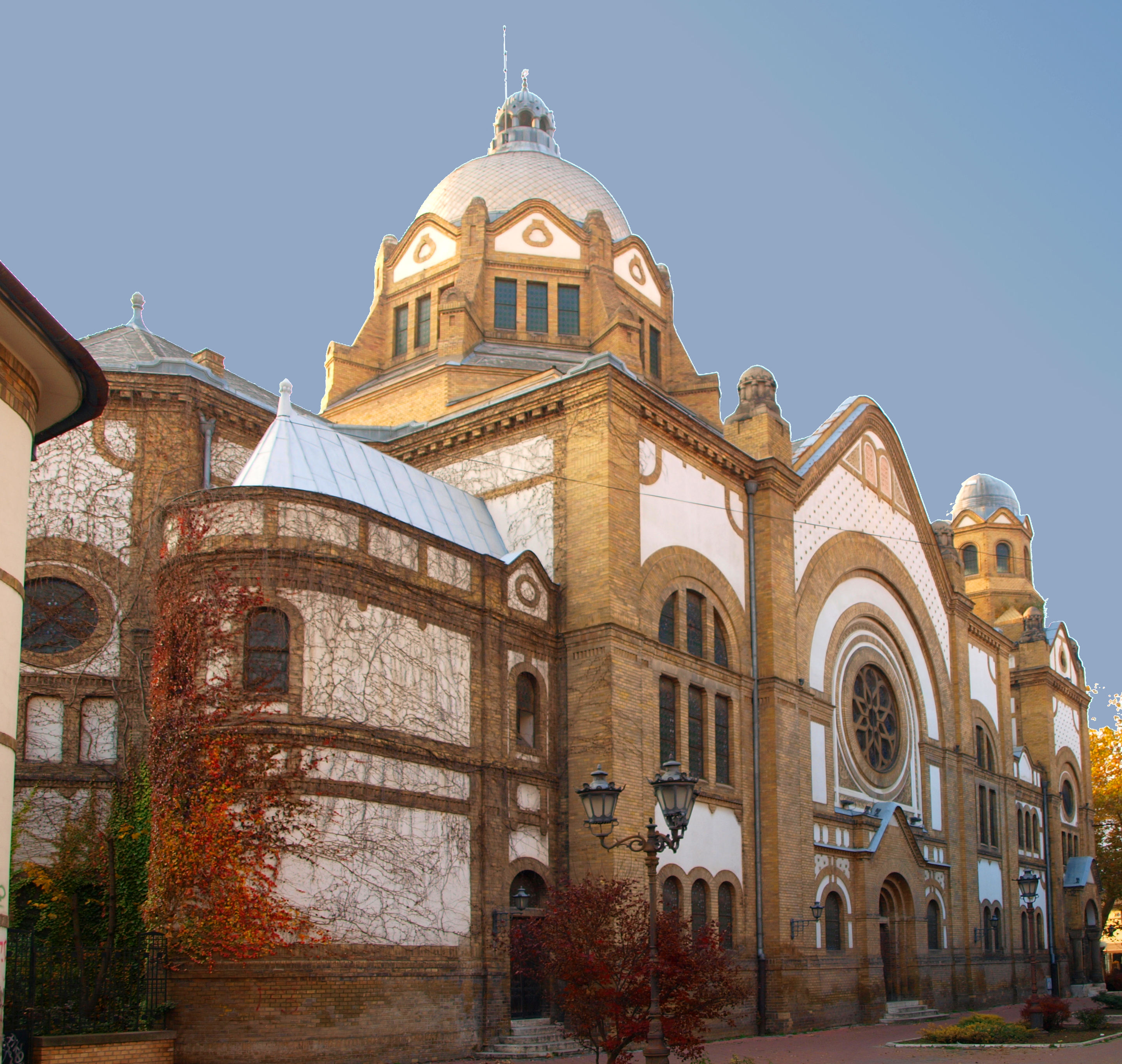 Synagogue in Novi Sad, Serbia.